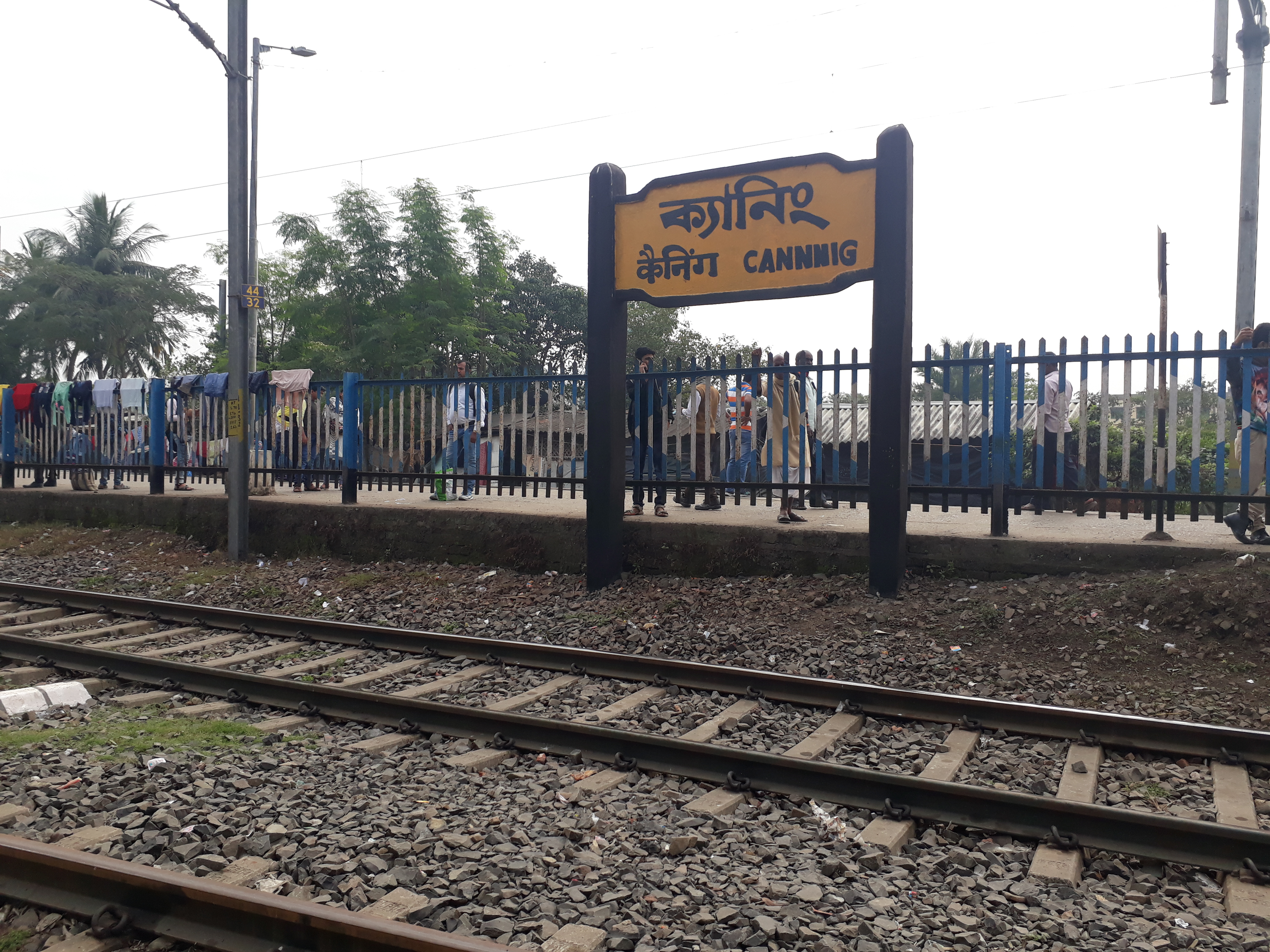 Canning Railway Station, Sealdah South Section, North 24 Parganas